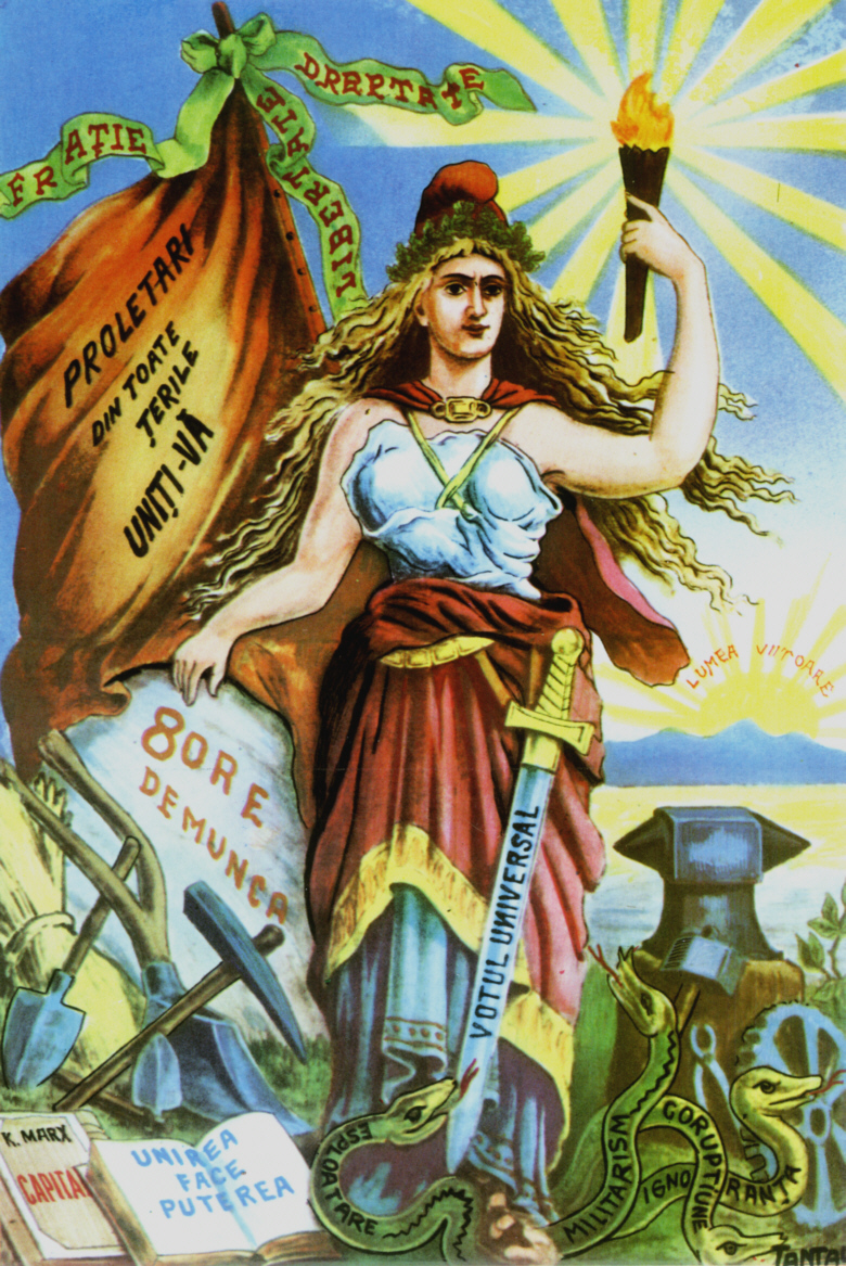 Illustration (chromolithograph) from the Romanian socialist magazine Lumea Nouă Științifică și Literară. A torch bearer, wearing a phrygian cap and a sword marked "Universal Suffrage", tramples upon four snakes (representing, from left, "Exploitation", "Militarism", "Corruption" and "Ignorance"). She is leaning on a rock marked "8-hour Day", above which is a red flag with the paraphrased Marxist slogan "Proletarians from All Countries Unite". The three strips of cloth tied to the mast read, from left, "Brotherhood", "Liberty", "Justice". At the foot of the rock are agricultural utensils and a bundle of grain. The open book in the foreground is Karl Marx's Das Kapital, and the open one to its right reads "Union Makes Strength". In the background, over the anvil and cogwheel, a rising sun marked "The World of the Future". Notes: several words used show antiquated or incorrect spellings - țerile for țările ("countries"), corupțiune for corupție ("corruption"), esploatare for exploatare ("exploitation"). For unknown reasons, the "N" in UNIVERSAL is turned into a "И", and the "ă" (schwa) is turned into a plain "a" in the words frăție ("brotherhood") and ignoranță ("ignorance").